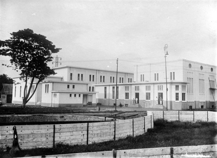 Electrification of the State Railway Company at the railwaystation in Meester Cornelis, Batavia